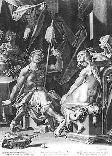 Hercules and Omphale.